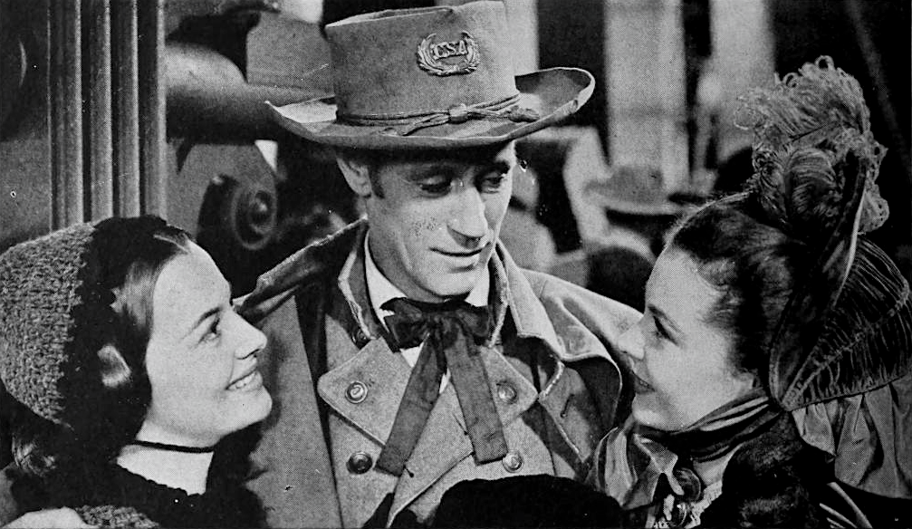 Photo of Olivia de Havilland (Left), Leslie Howard (Center) and Vivien Leigh (Right) from Gone With the Wind.